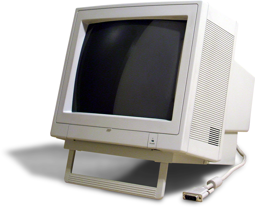 I took this picture of my Apple Performa Plus Display for use in the article Apple Performa Plus Display.